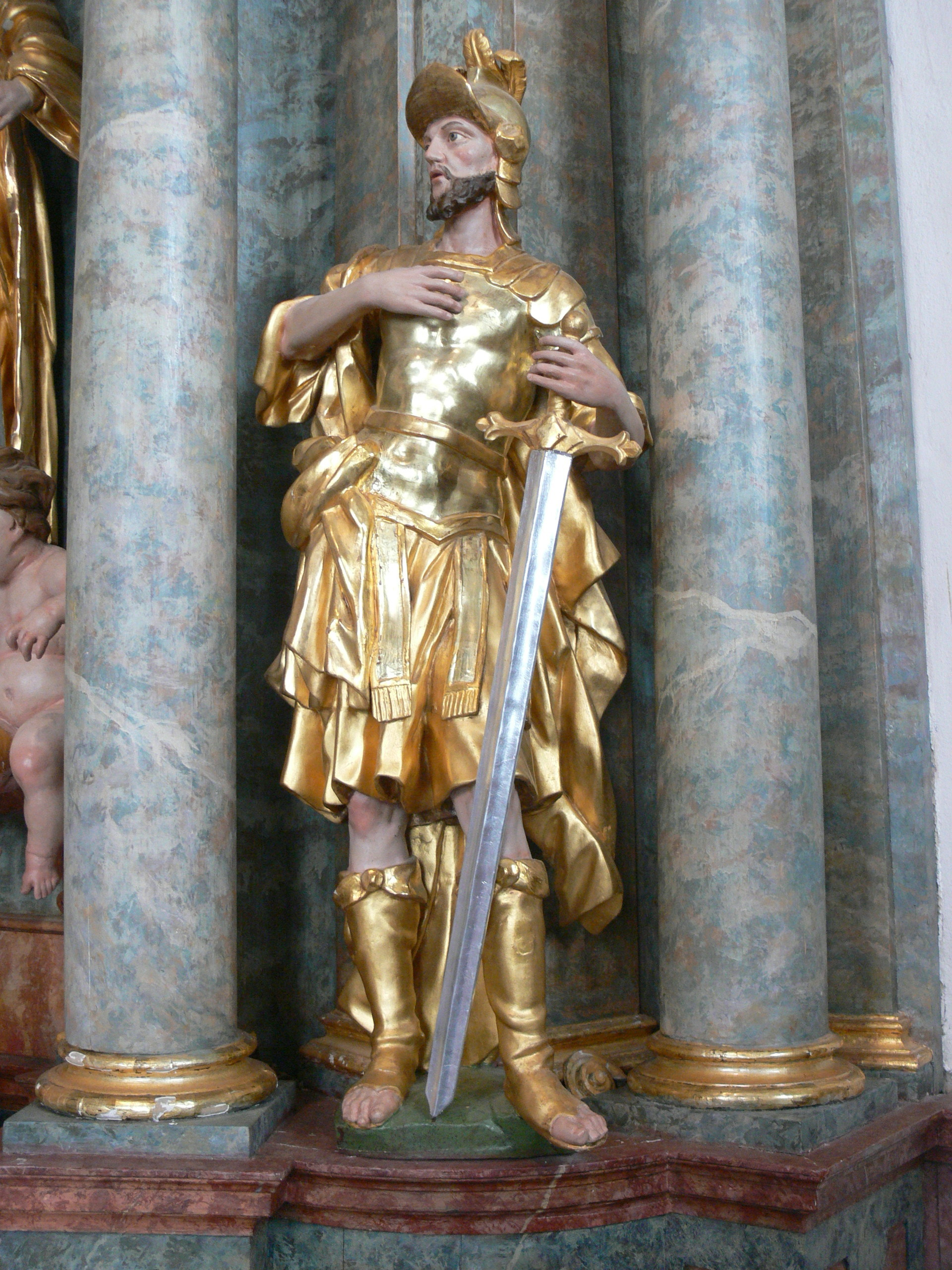 Mary Assumption church in Kájov, Czech Republic. Dormition chapel: Altar of Saint Leonhard ( 1664 ) - Statue of Saint Achatius (?).